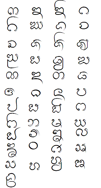 The forty-four consonants of the Lanna abugida, without diacritics.